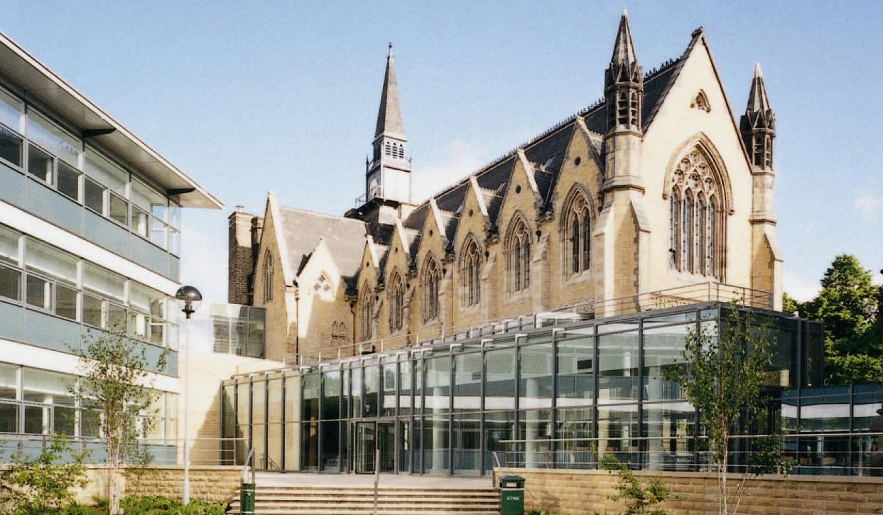 University of Leeds Business School Building (LUBS) taken in April 2010.